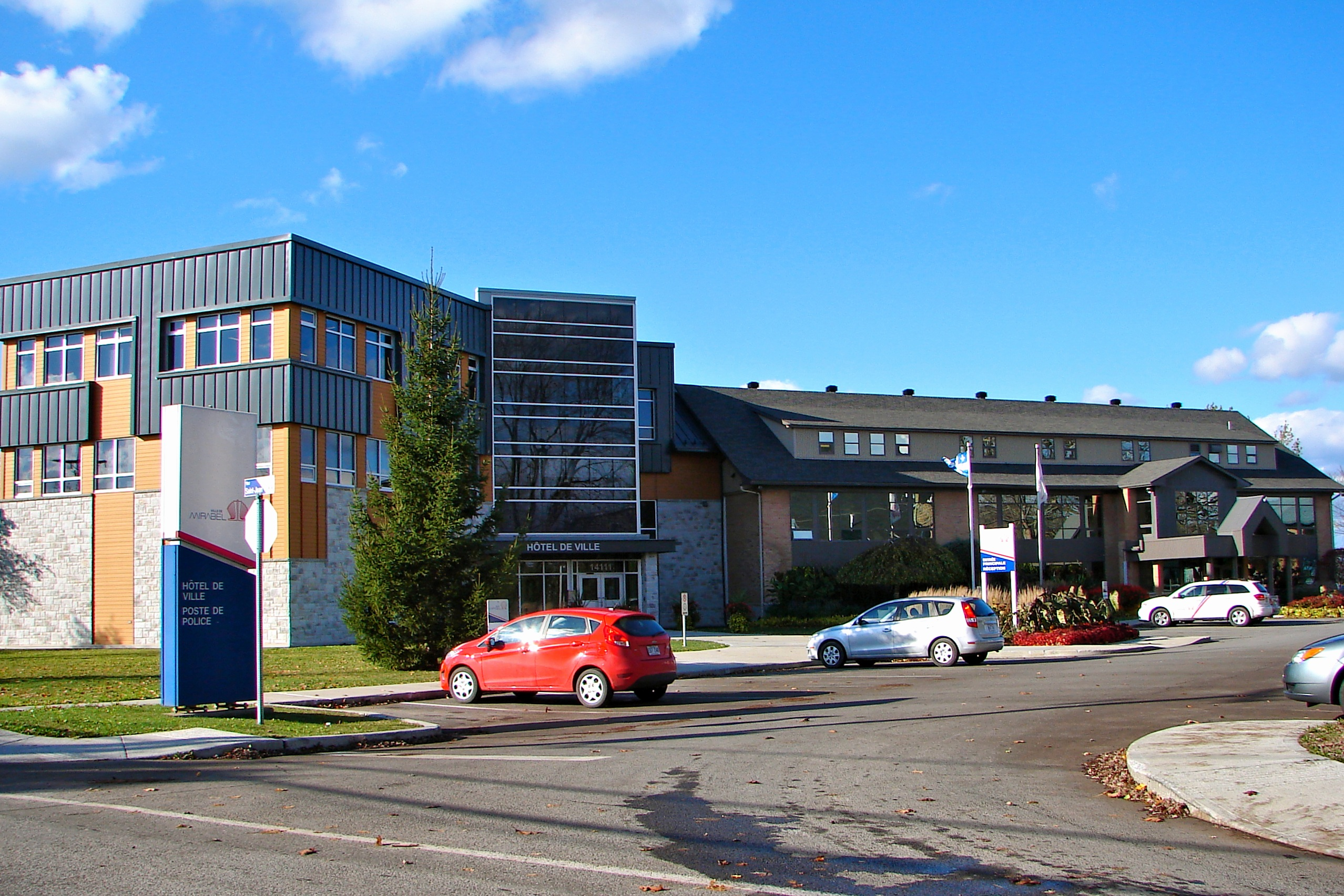 Town hall of Mirabel, Quebec, Canada